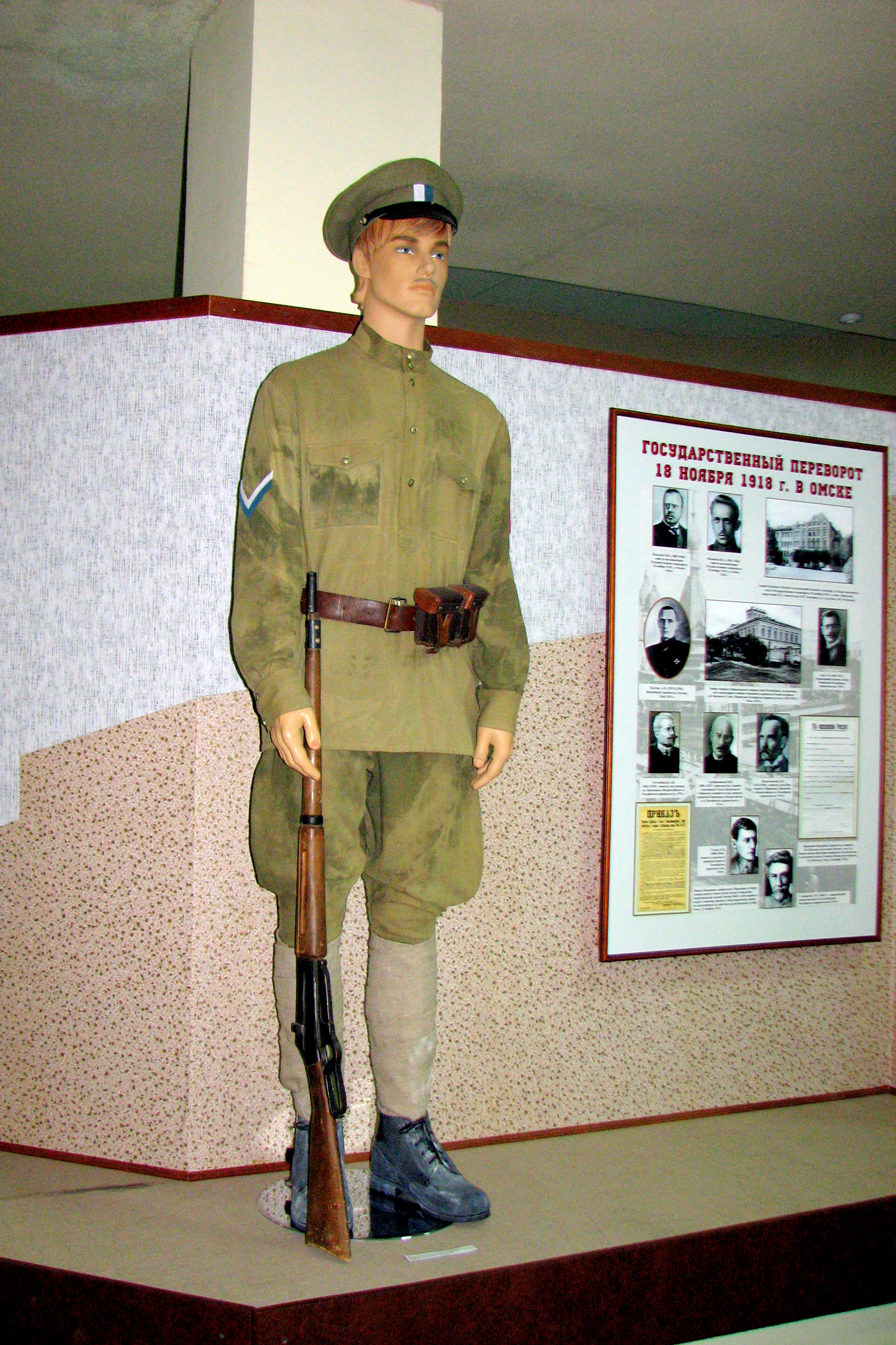 Soldier of Siberian Army.